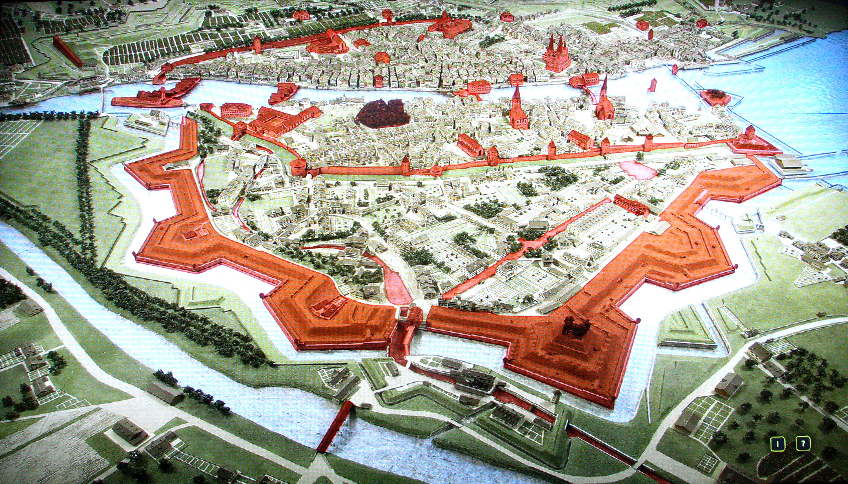 Zürich : Fortifications of Zürich, as of 1642 and later. Digital version (LCD for visitors) 'Stadtmodell' by Hans Langmack, based on the so called 'Müllerplan' (published 1794).